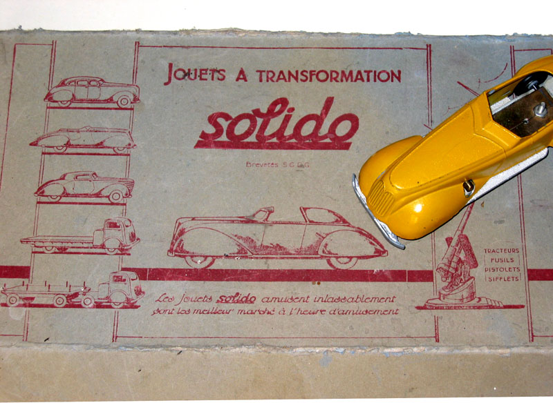 Mechanical toy: box of Solido cars - 1938 Personal picture